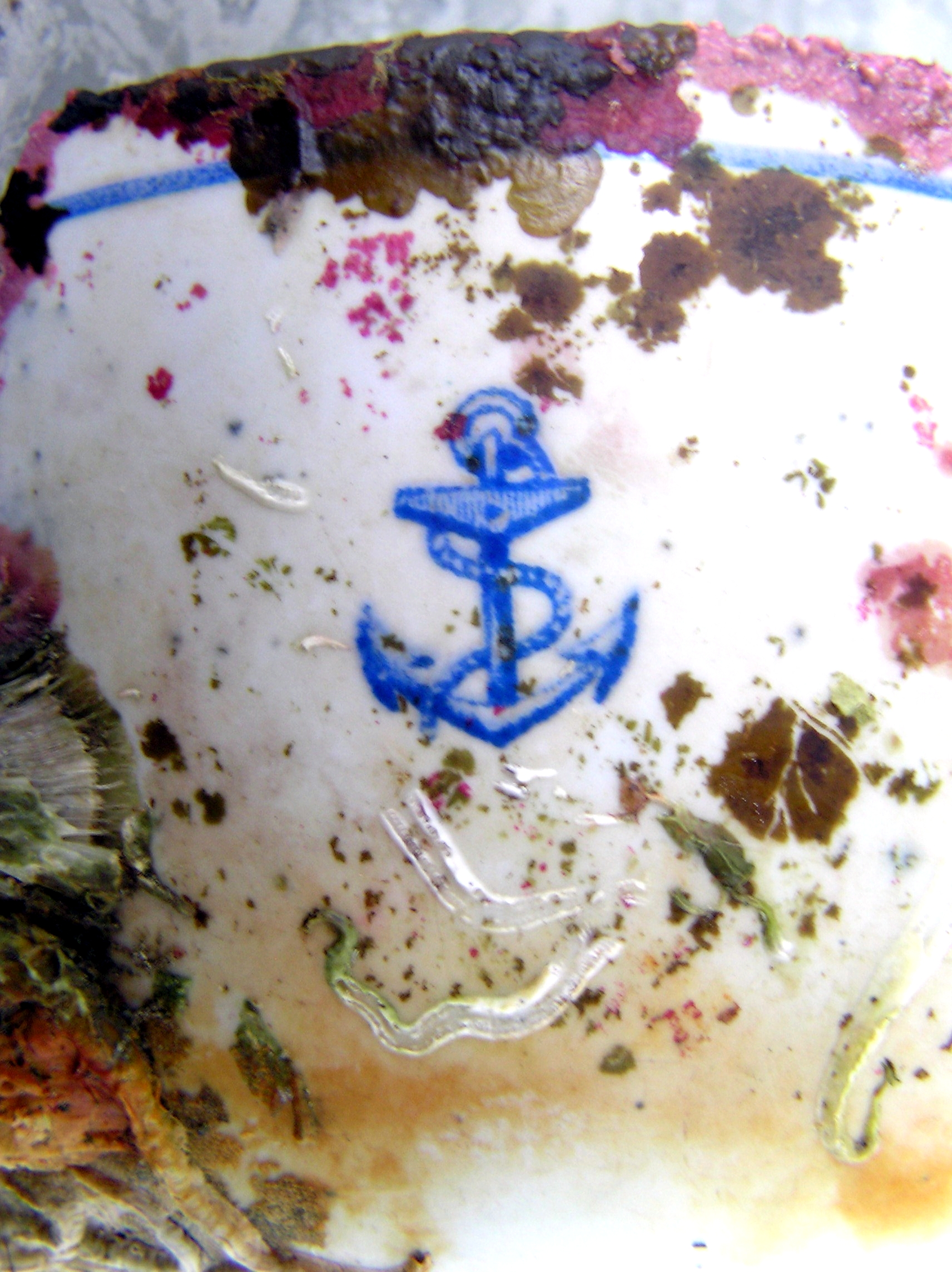 Broken Shard of WW1 era British Naval pottery, retrieved from Scapa Flow, Orkney.